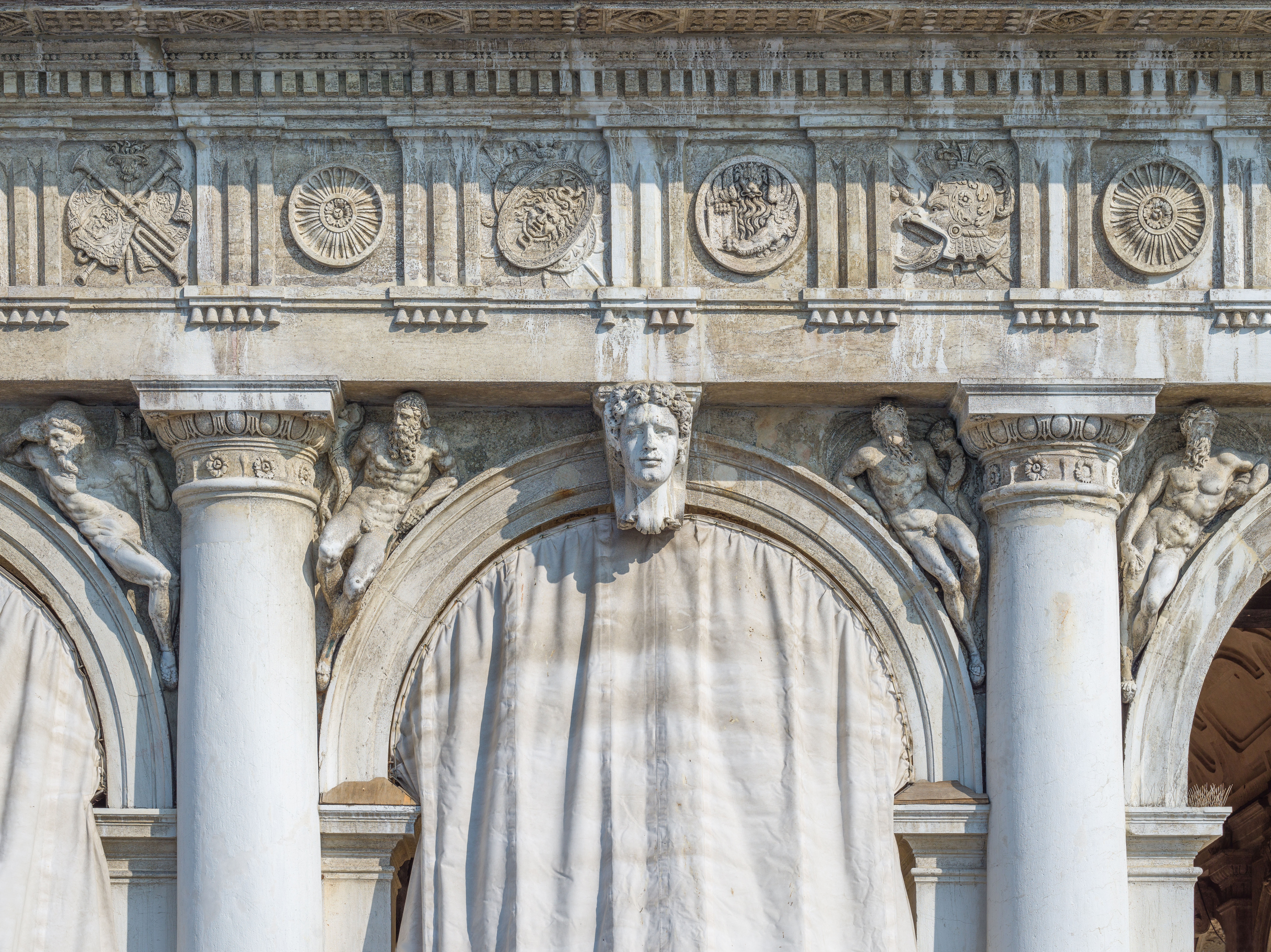 Detail of the south facade of the Biblioteca Marciana in Venice.